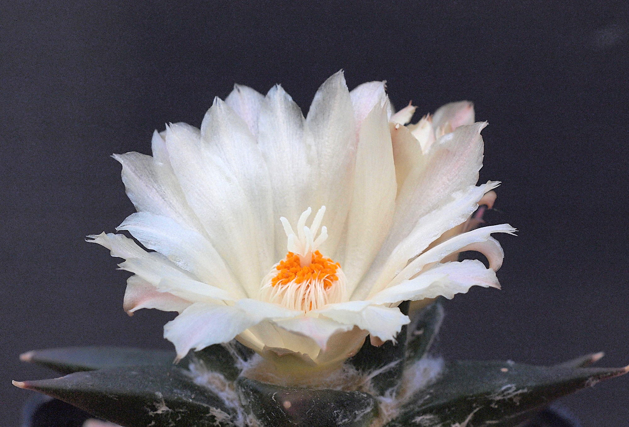 Ariocarpus trigonis in bloom, 2011